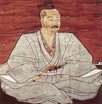 Huzikane Masuda